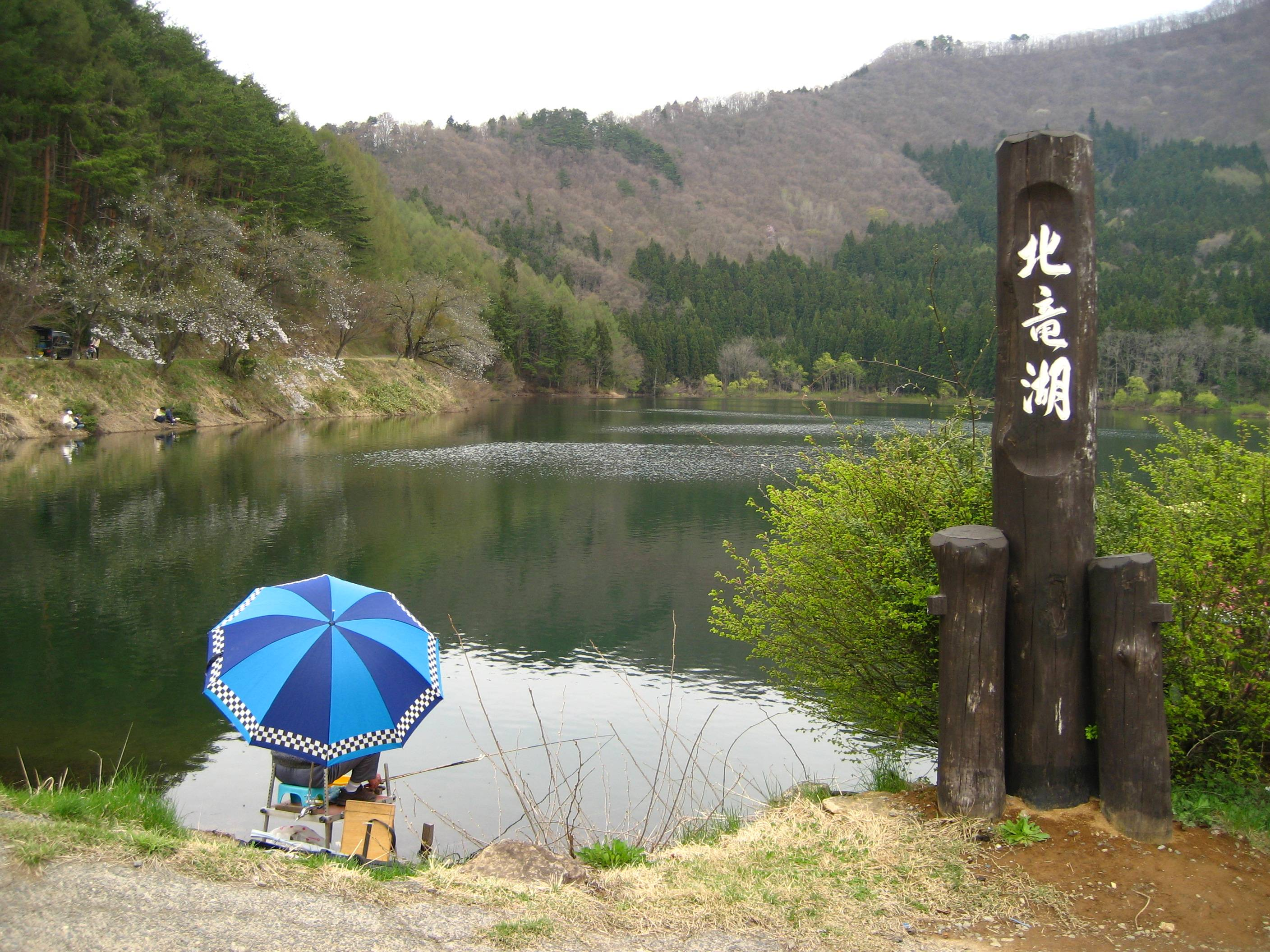 Hokuryuko (北竜湖) is in Iiyama city, Nagano prefecture, Japan.